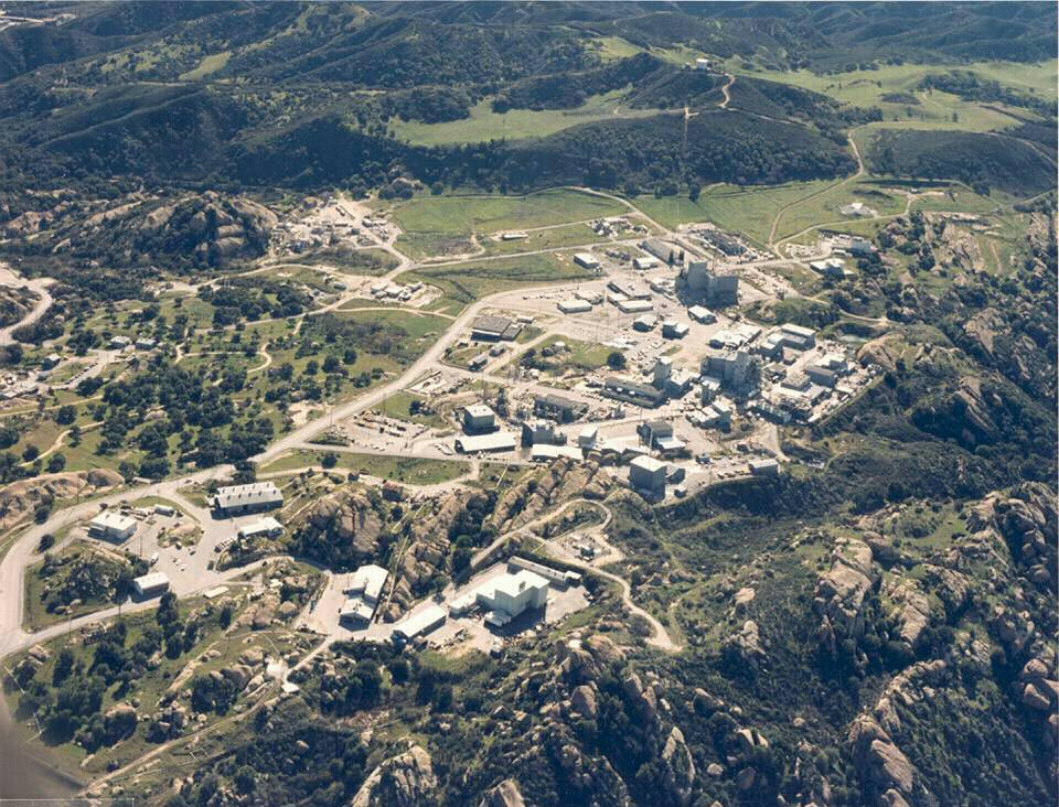 Aerial view of the Energy Technology Engineering Center in 1988. The group of buildings shown were used either by ETEC for research involving liquid metals or by Atomics International for nuclear-related research. The Energy Technology Engineering Center is located within the Santa Susana Field Laboratory, Eastern Ventura County, California.